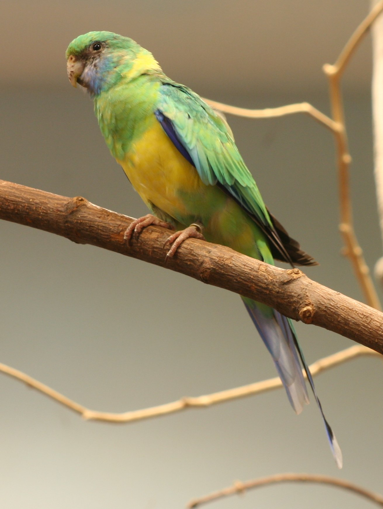 Cloncurry Parrot (Barnardius zonarius macgillivrayi, a.k.a. Barnardius barnardi macgillivrayi) at the Buffalo Zoo